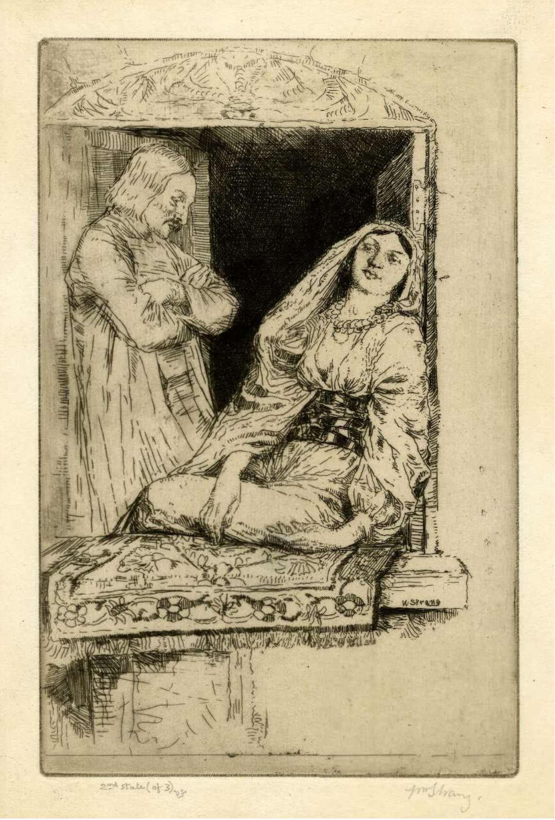 "Lalun is a member of the most ancient profession" that tricks a British officer into releasing a prisoner. She is pictured sitting on a rug placed over the windowsill opposite a man with his arms folded.